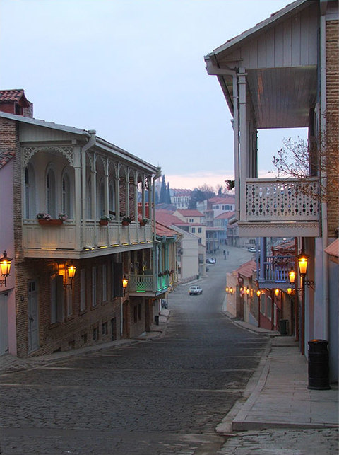 Sighnaghi